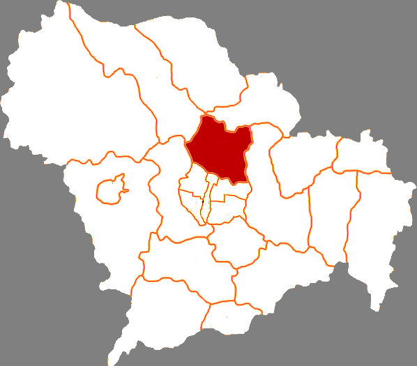 Location of Zhengding County in Shijiazhuang City, China